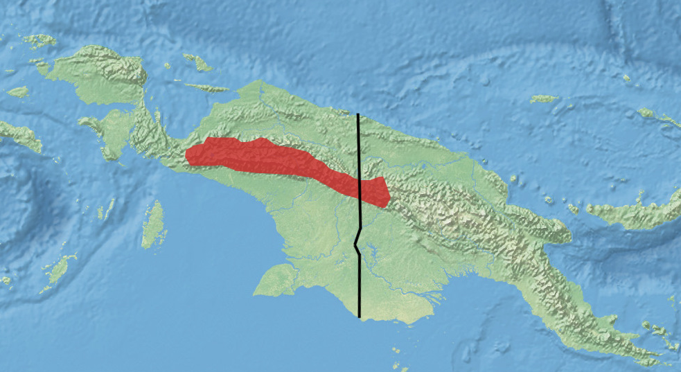 The Distribution of the Great-tailed Triok